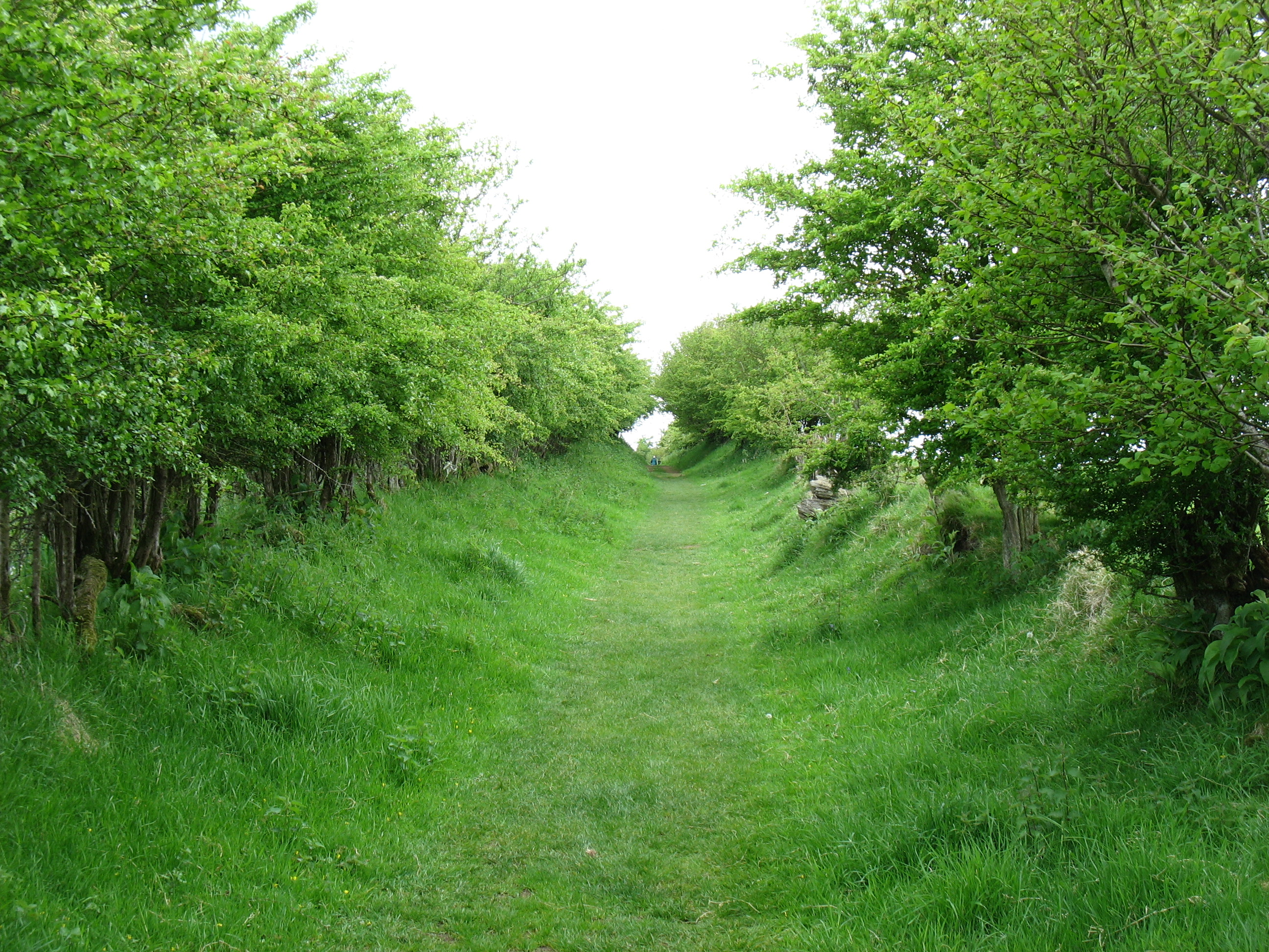 The Hadrian's Wall Path follows a 'green lane'